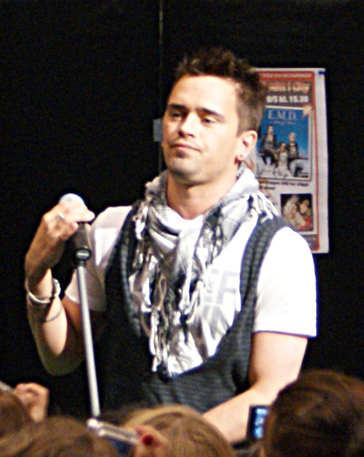 Erik Segerstedt during a public performance in Mitt i City, Karlstad, Sweden.